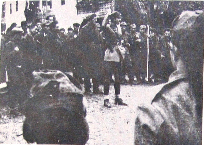 Formation of I Macedonian-Kosovo Assault Brigade, November 11, 1943 in the village of Slivovo, Ohrid. This media file is produced by Wikipedian in Residence in Category:Wikipedian in Residence at DARM in 2016.